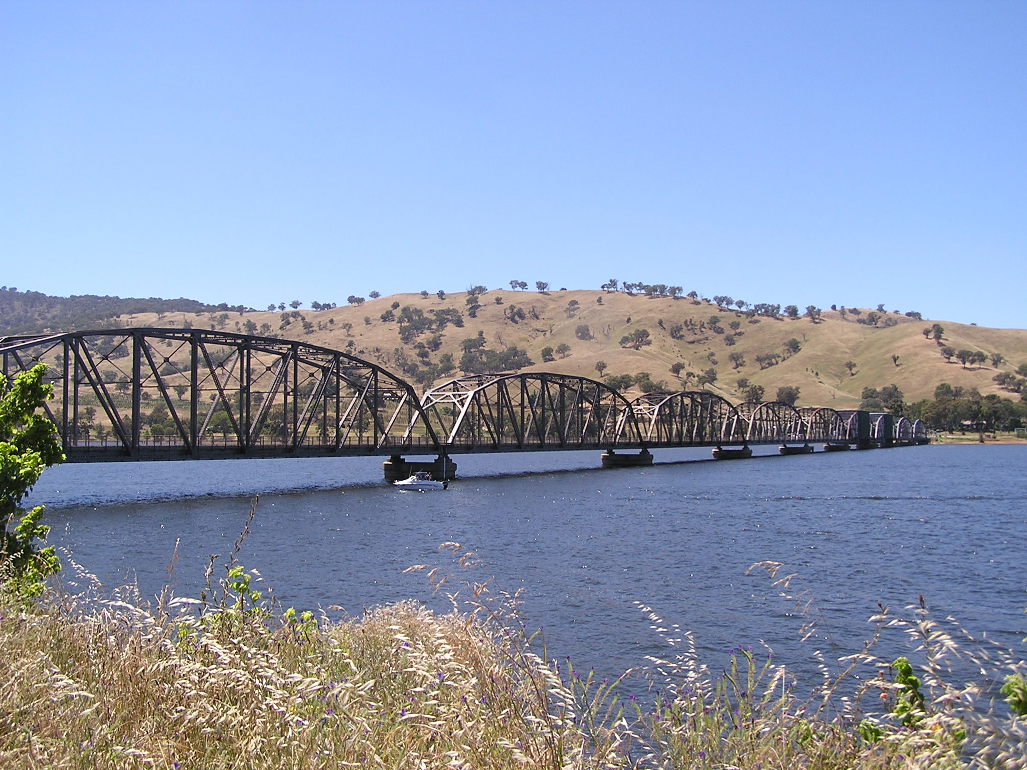 Bethanga Bridge on the Riverina Highway across Hume Dam/Lake Hume, near the town of Bellbridge , Australia Picture taken by AYArktos December 2005